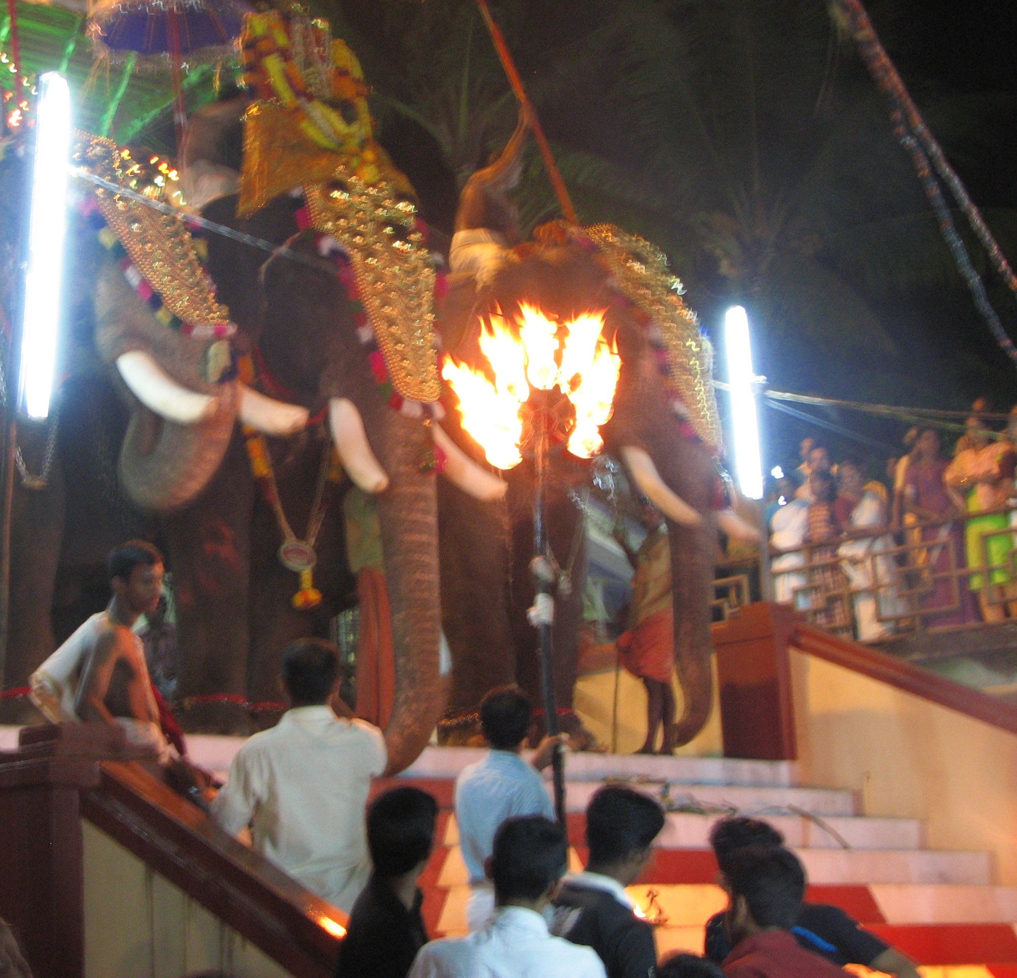 Theevetti (Deepayashti): Traditional torches with 8 spokes from Kerala